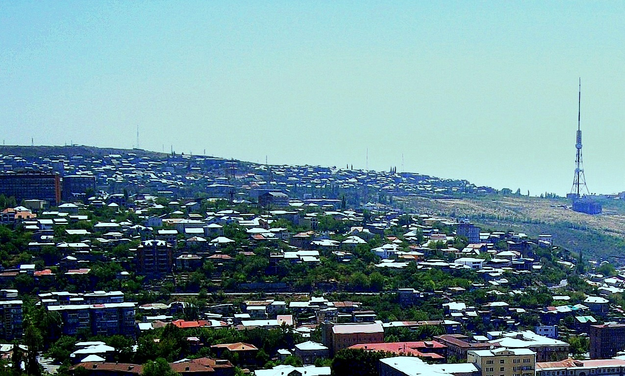 Nork Marash, Yerevan, Armenia.